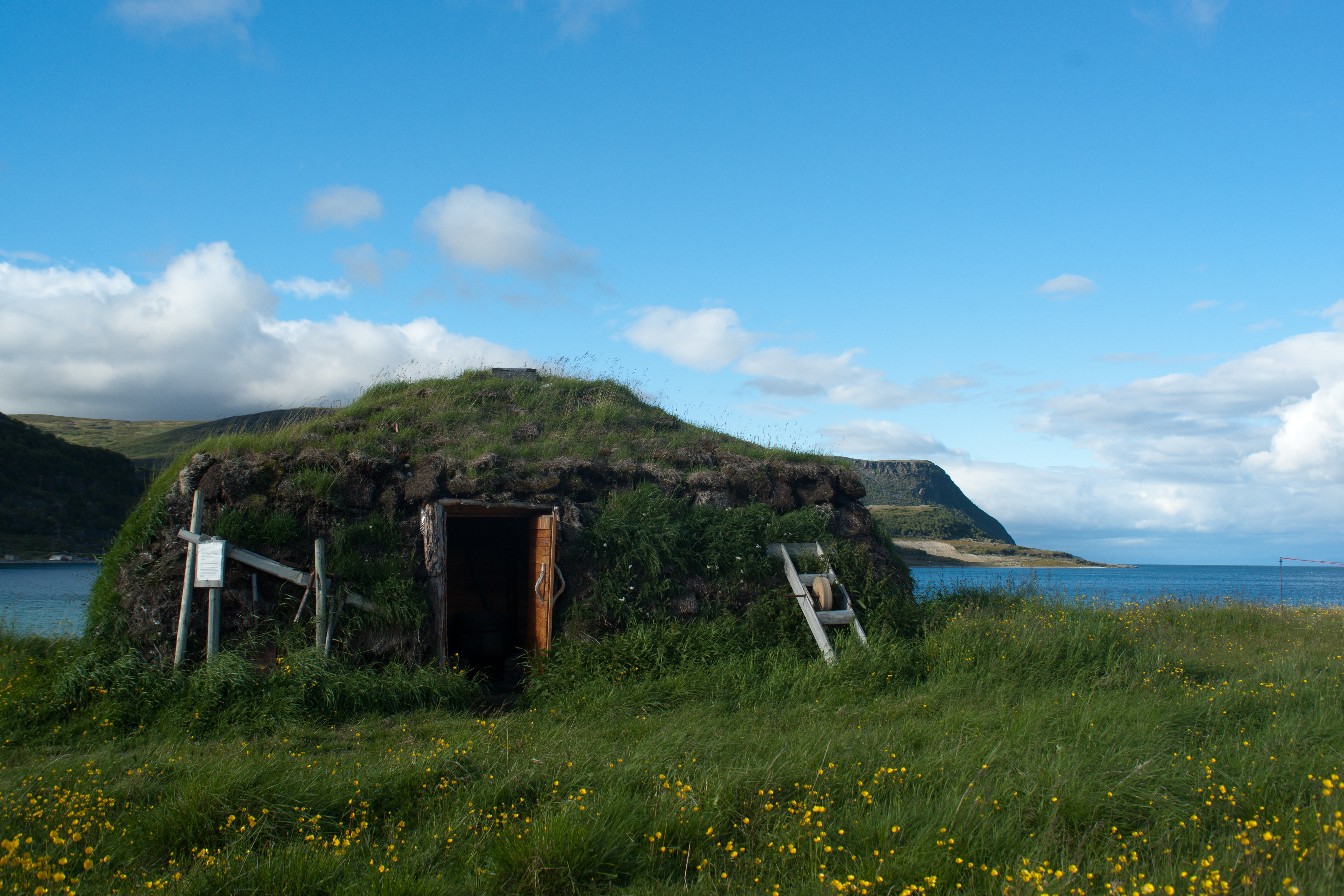 Traditional Samí house, Finnmark, Norway.